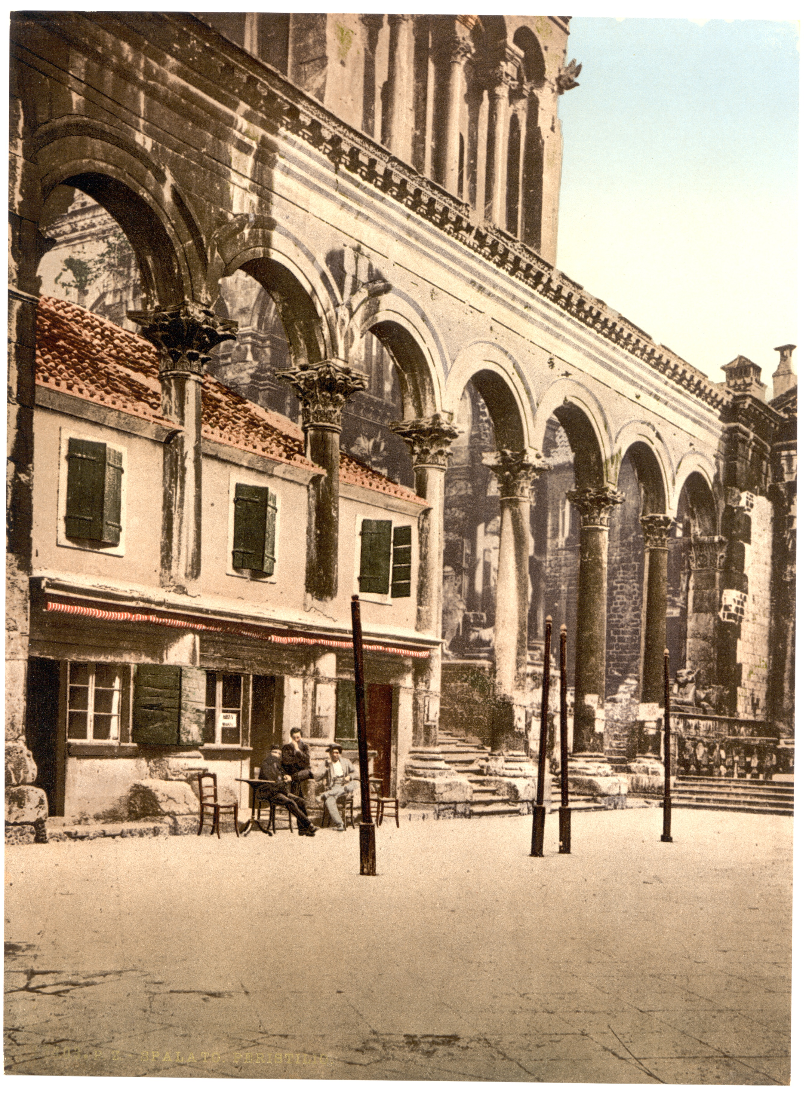 Forms part of: Views of the Austro-Hungarian Empire in the Photochrom print collection.; Print no. "17403".; Title from the Detroit Publishing Co., Catalogue J-foreign section, Detroit, Mich. : Detroit Publishing Company, 1905.